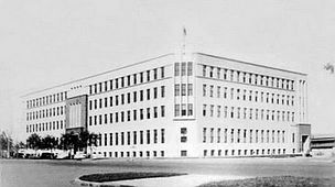 Hsinking branch of Oriental Development Company